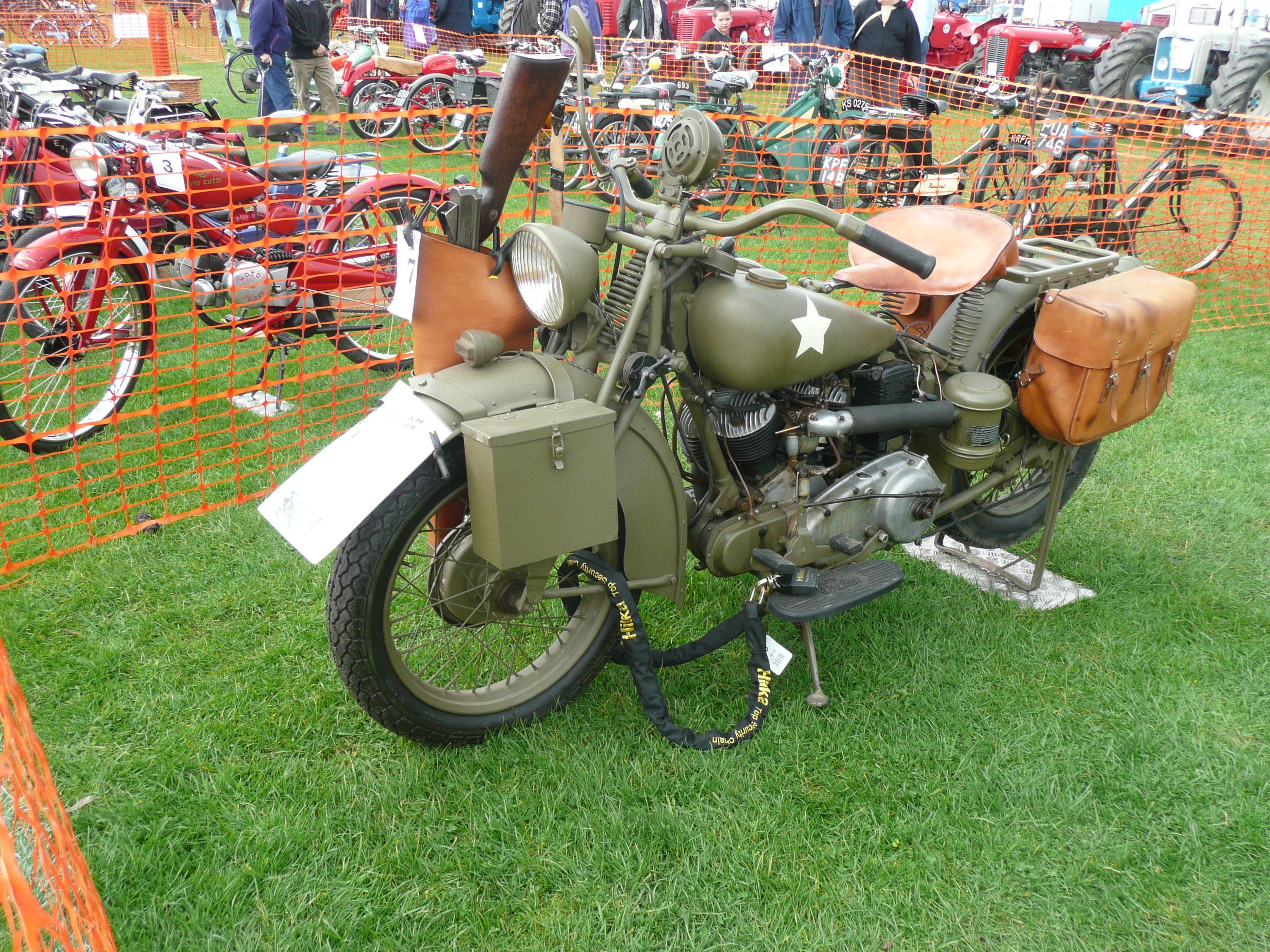 Restored by present owner. Painted in US army olive green. Gun is a 1942 issue Thompson sub-machine gun (deactivated)